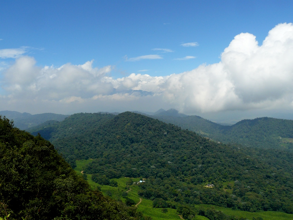 View from Three Crosses (within Cerro Dapa Carisucio Forest Reserve) overlooking upper Chicoral, the Hindu tea plantation, and the Bitaco Forest Reserve. The Farallones de Cali are faintly visible in the distance.